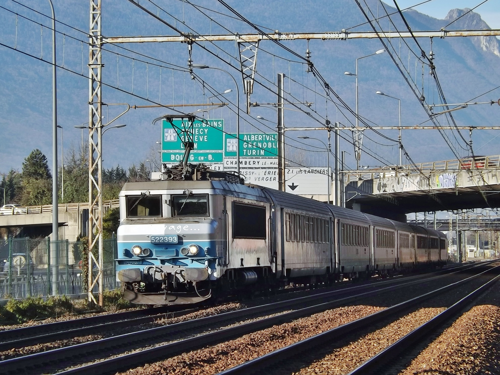 Sight of the Rhône-Alpes regional train n° 18513 coming from Lyon and arriving in Chambéry, Savoie, France.